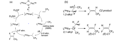 Hydrodefluorination of fluorinated olefins